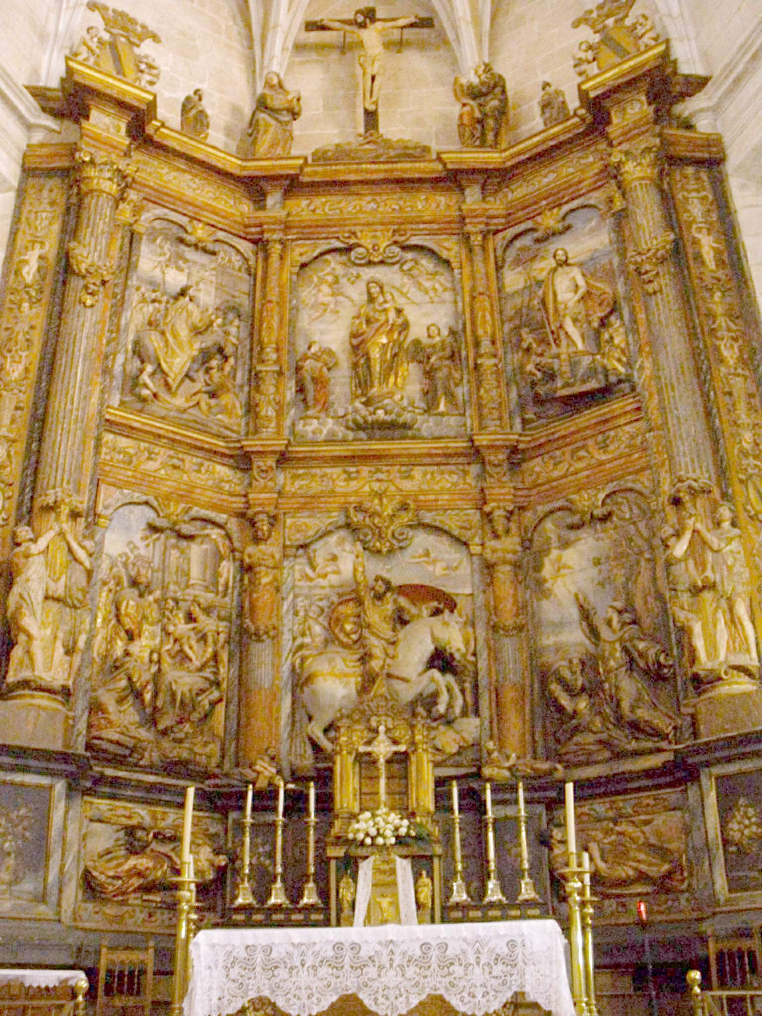 Main altar piece of the Church of Santiago (Cáceres)